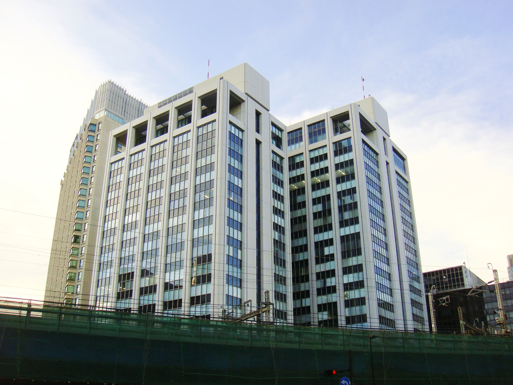 Yurakucho Denki Building